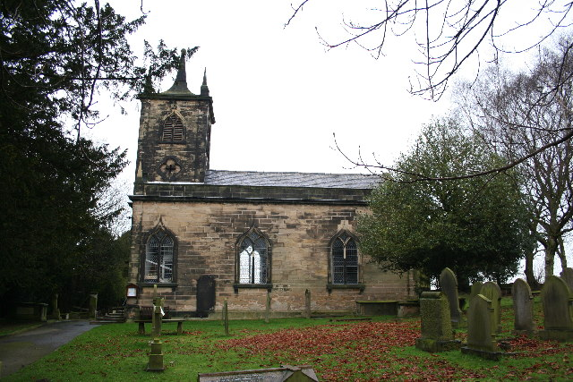 St James' parish church, Ravenfield, South Yorkshire, seen from the south